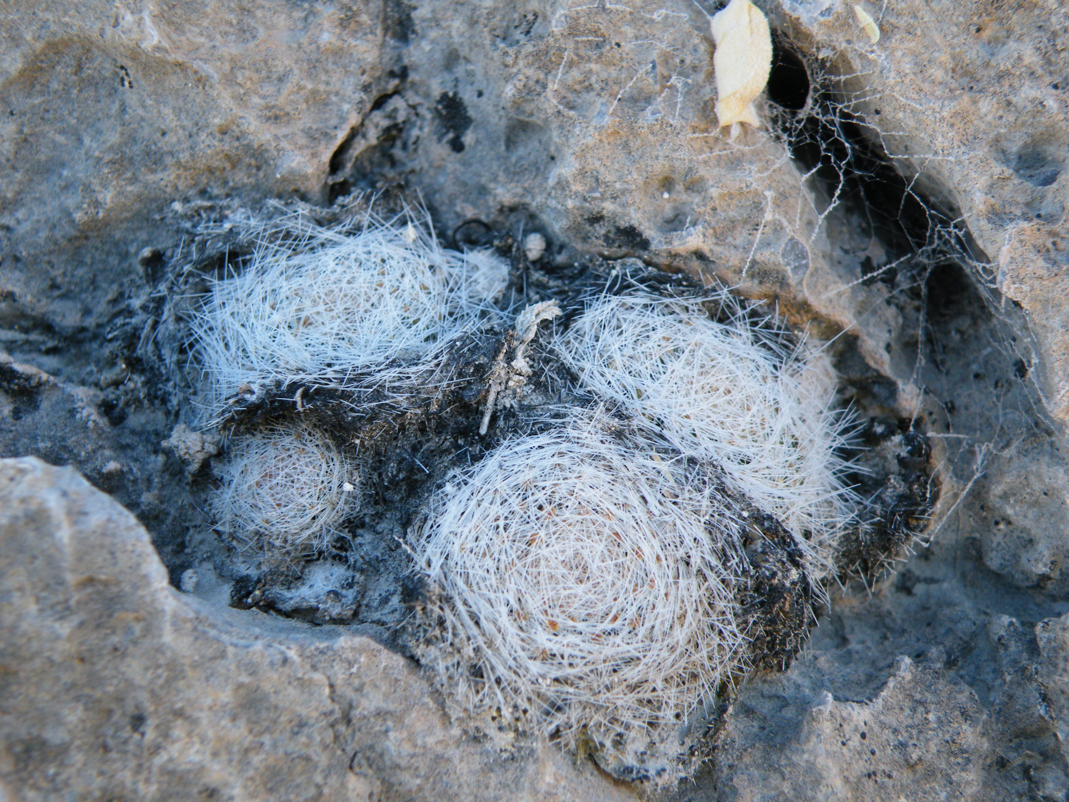 Viesca 2nd hill, Coahuila